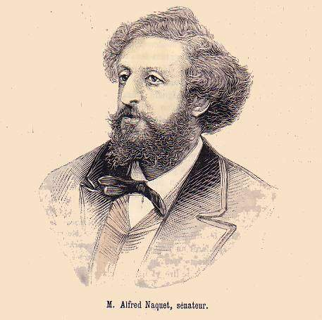 French politican Alfred Naquet (1834-1916)